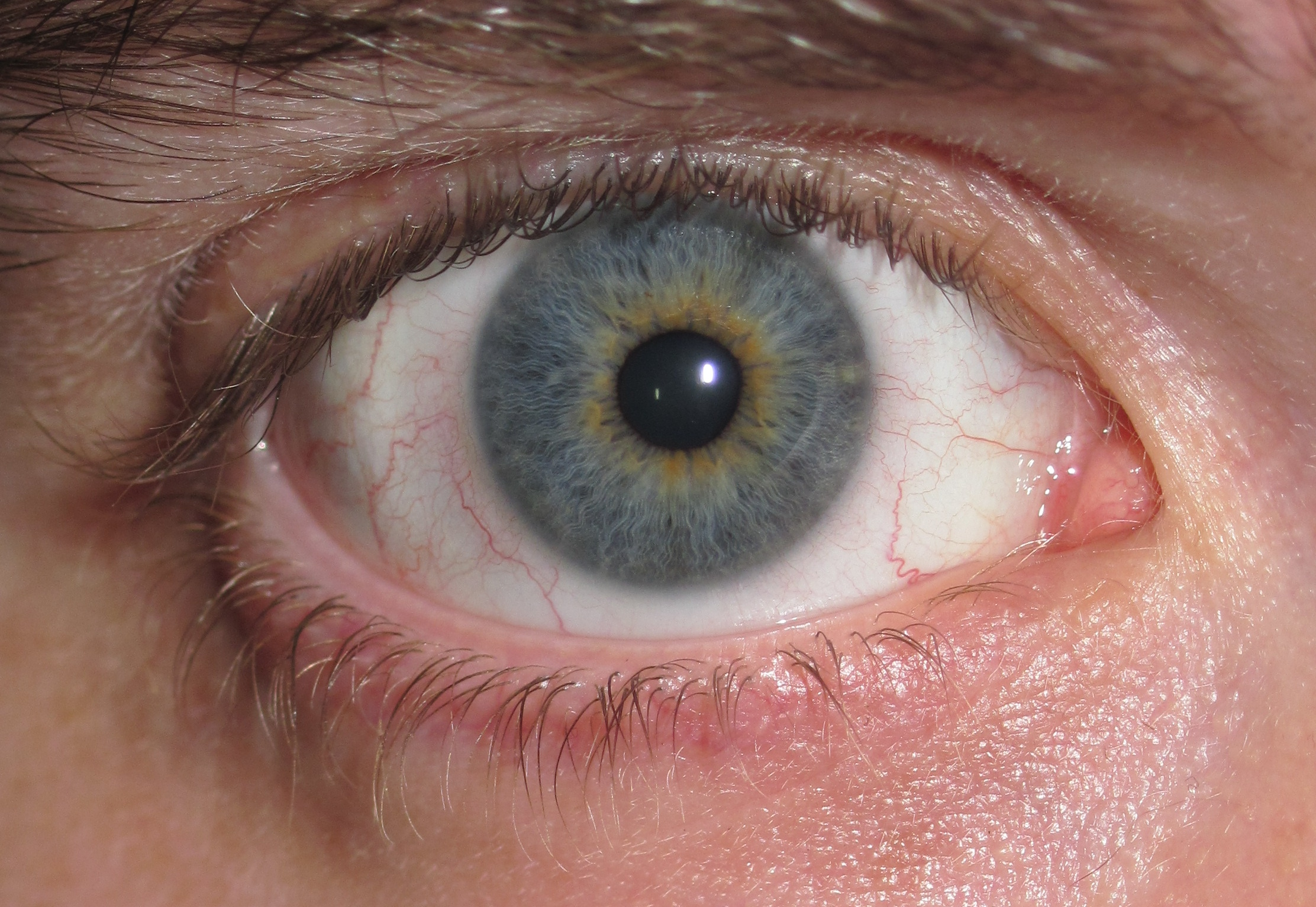 Central heterochromia of the iris; a blue/grey eye with a hazel centre. Self-portrait, I am a 31 year old man. This is my right eye, there is a slight reflection of my nose on the right side of the picture; however, holding up a dark cloth over it just made my fingers holding the cloth be reflected instead, so I gave up and accepted said reflection. =)